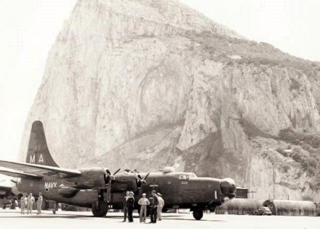 A U.S. Navy Consolidated PB4Y-2S Privateer of patrol squadron VP-23 at Gibraltar in January 1951.